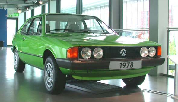 VW Scirocco, VW Autostadt, Wolfsburg